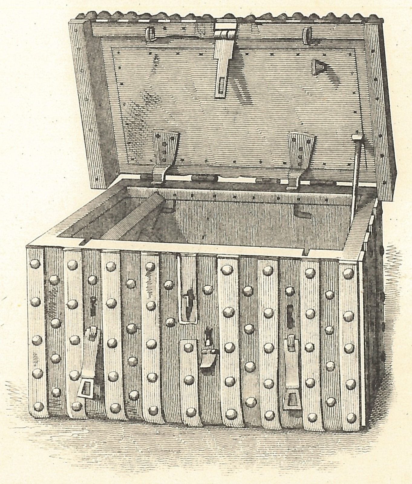 Wood-engraving of Domesday chest: the German-style iron-bound chest used for the storage of Domesday Book from c.1600 until the end of the 18th century